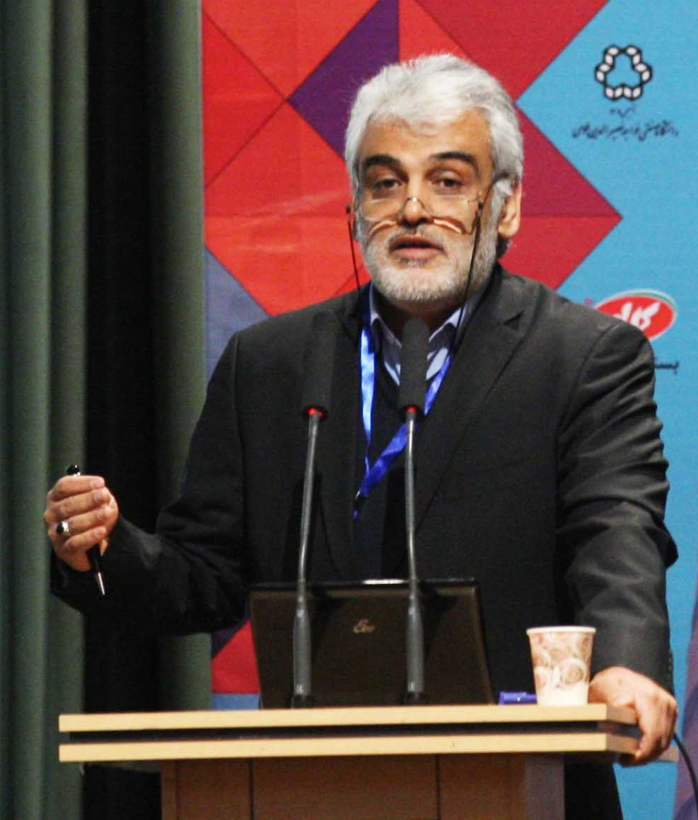 Mohammad Mehdi Tehranchi